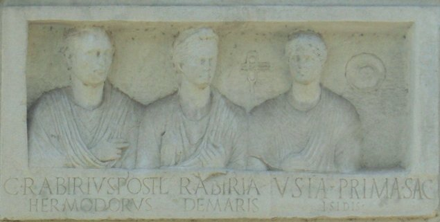 Grave monument of Gaius Rabirius Hermodorus, freedman of Gaius Rabirius Postumus, Rabiria Demaris, and Usia Prima, priestess of Isis, along the Via Appia, near Quittro Miglia. Note the rattle and the bread denoting service to Isis. REPLICA in situ!